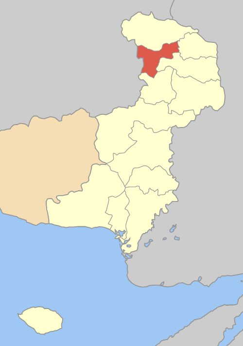 Locator map of Kyprinos municipality (Δήμος Κυπρίνου) in Evros prefecture (Νομός Έβρου) in Greece.